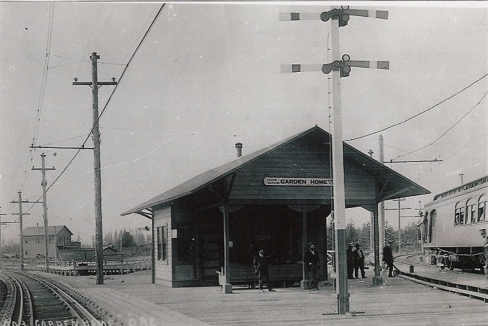 Garden Home Railway Depot circa 1911. This structure formerly stood on a trestle where Multnomah Blvd and Garden Home now intersect. The old station site was the branch on the main stem. Tracks to the left went south to Nesmith, Metzger, and Greenburg. Tracks on the right went northwest to Firlock, Fanno Creek, Whitford, and Beaverton. The station platform was built where Old Market Pub and Son and Daughter is now located.